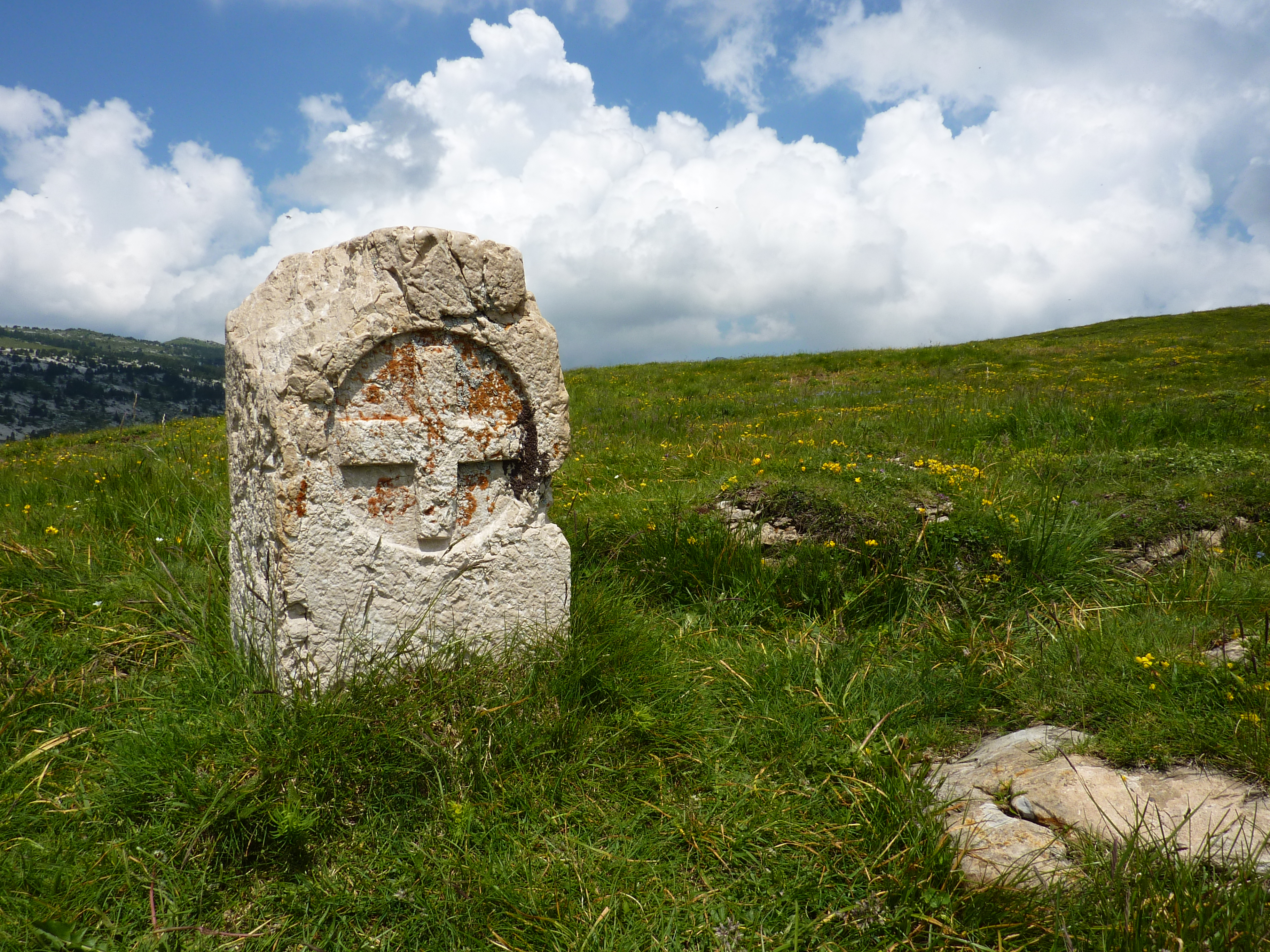 Boundary stone between the Dauphiné (kingdom of France) and Savoie, near the Croix de l'Alpette in the Chartreuse mountains.